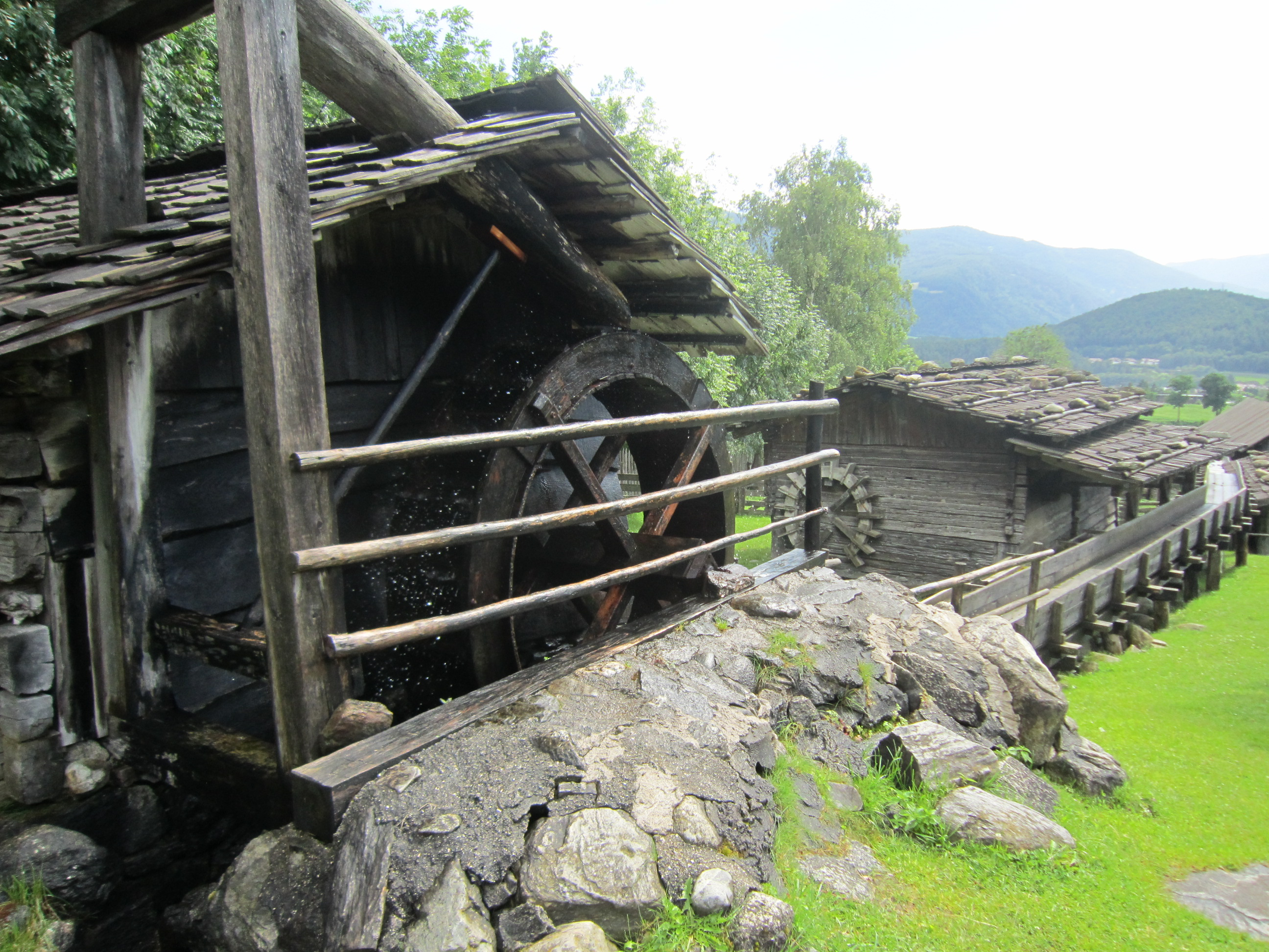 Watermill at South Tyrol State Museum of Ethnology in Dietenheim